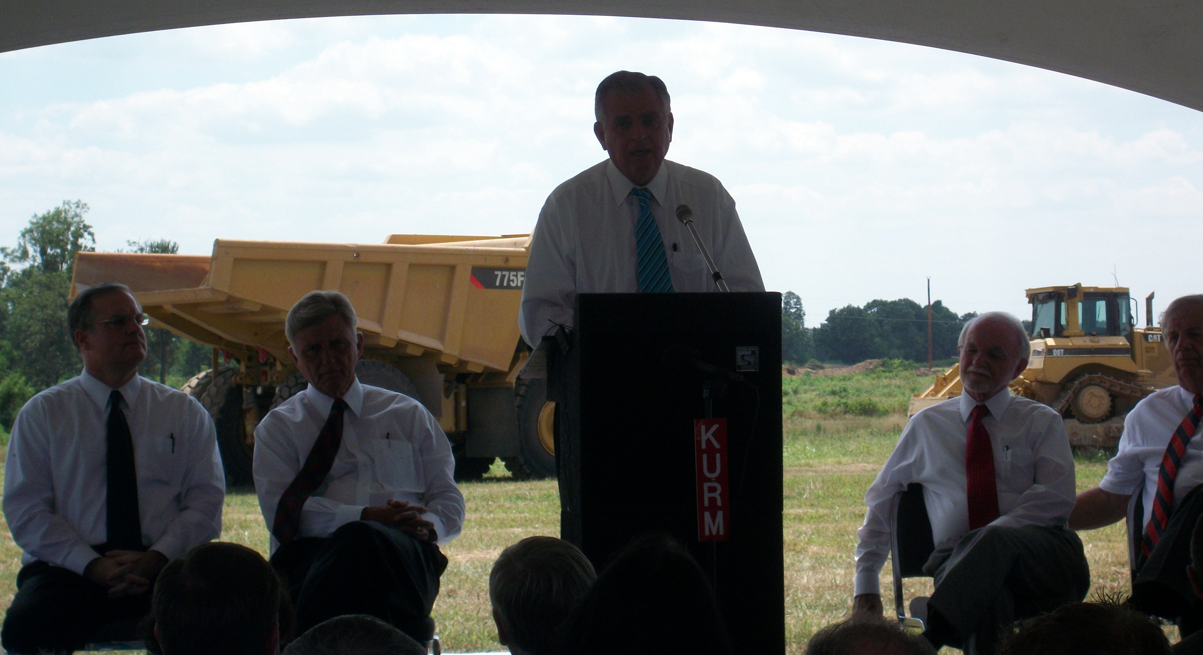 US Transportation Secy. Ray LaHood addresses a crowd gathered in Hiwasse, AR for the groundbreaking on the Bella Vista Bypass with TIGER grant funding. From left to right: Arkansas Senator Mark Pryor, Arkansas Governor Mike Beebe, Secy. LaHood, Arkansas State Highway Commissioner Dick Trammel, and Arkansas State Highway and Transportation Department Director Dan Flowers